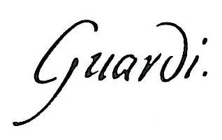 autograph of the painter Francesco Guardi